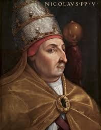 Portrait of Pope Nicholas V 1447-1455